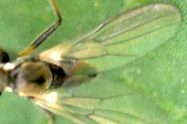 Rhamphomyia pilifer from Commanster, Belgian High Ardennes .